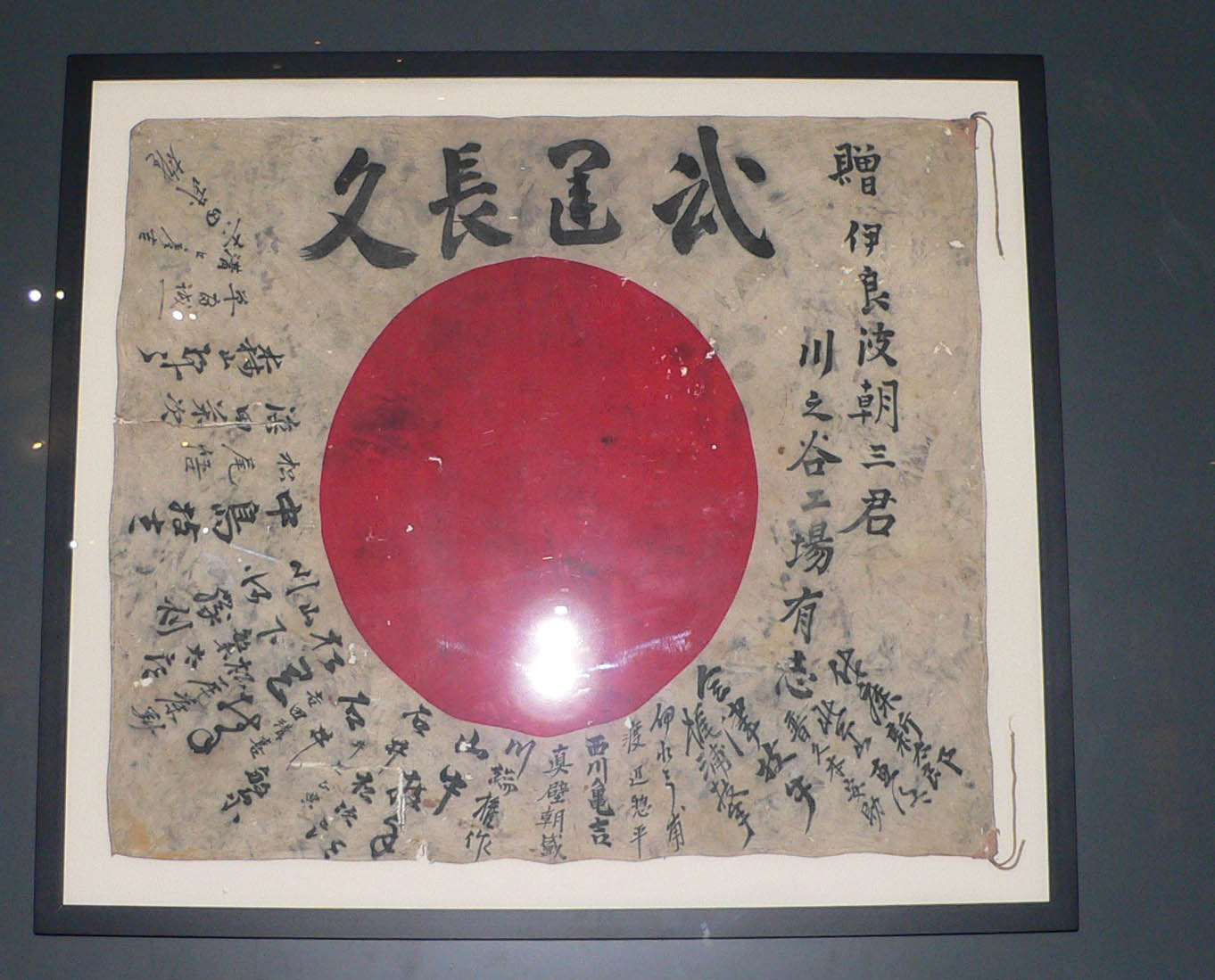 A Japanese personal flag. Picture taken by Mark Pellegrini in the Steven F. Udvar-Hazy Center (Smithsonian Air and Space museum extension in Dulles, Virginia). "Japanese soldiers often carried personal flags, signed by friends and neighbors, as a patriotic symbol. This flag was captured during the Battle for Guam. Donated by Mr. Ralph Phipps. 1992.153.5"